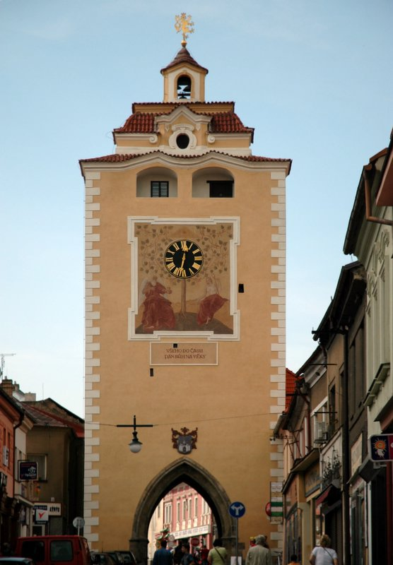 The Pilsen Gate in Beroun as seen from the inner (east) side.